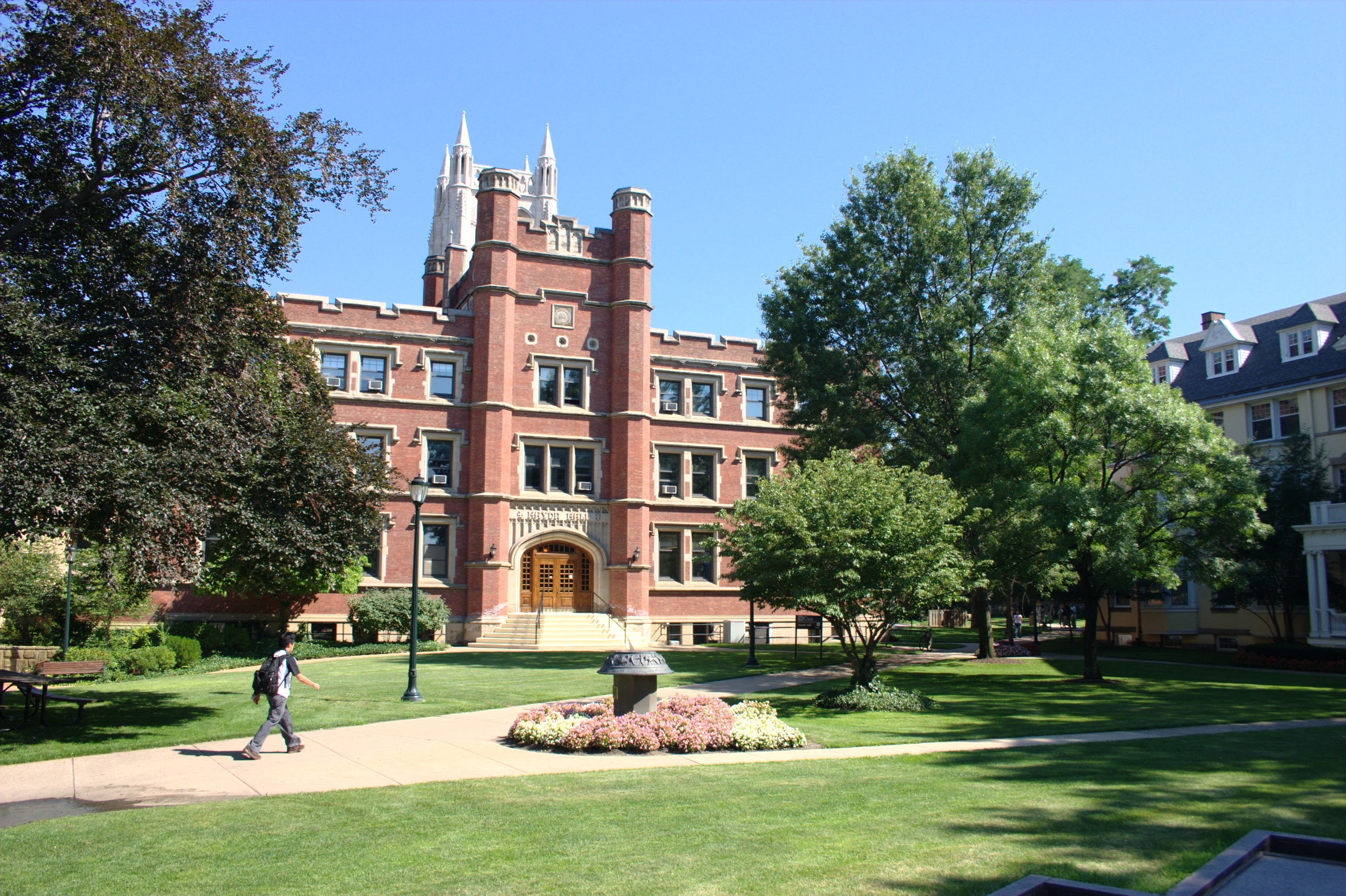 The Case Western Reserve University campus, July, 2005. Photo taken by Rick Dikeman. The brick building is Haydn Hall, and the steeple visible behind it belongs to the Church of the Covenant. The yellow building to the right is Guilford Hall. Image:Case western reserve campus 2005.jpg by Rdikeman, 8/9/2005 22:02 (UTC)